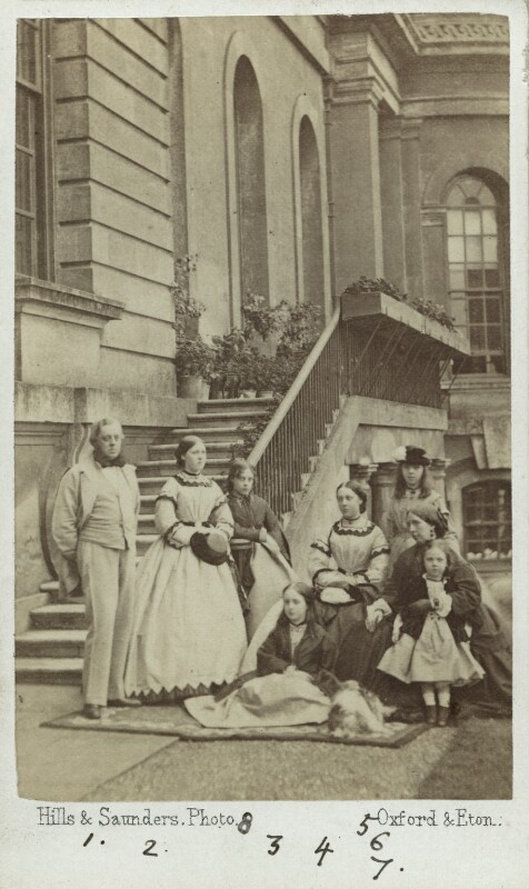 The 7th duke of Marlborough and his family at Blenheim Palace, 1864